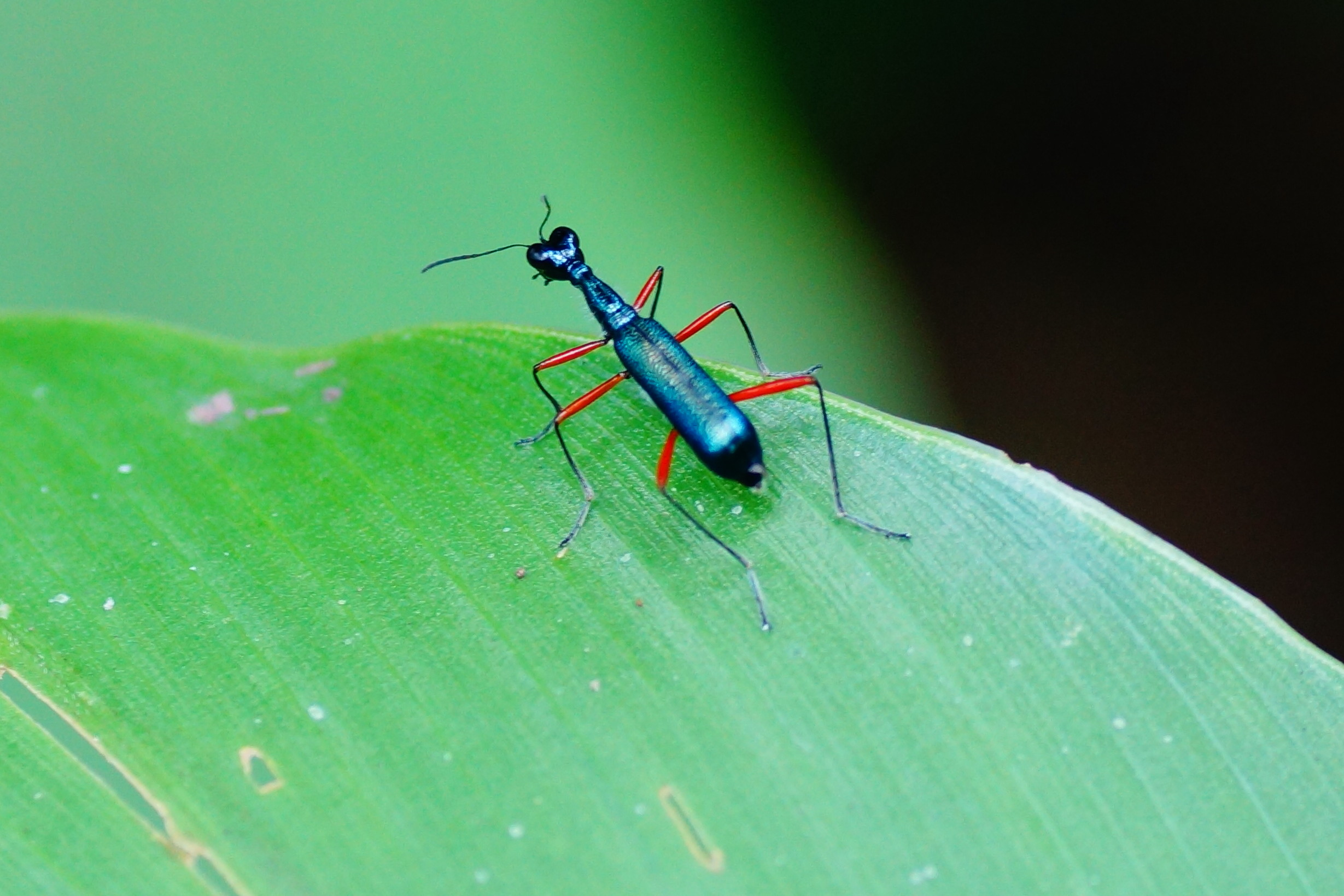 Tiger beetle Probably tribe Collyridini. Dysmorodrepanis (talk) 07:12, 24 August 2013 (UTC)